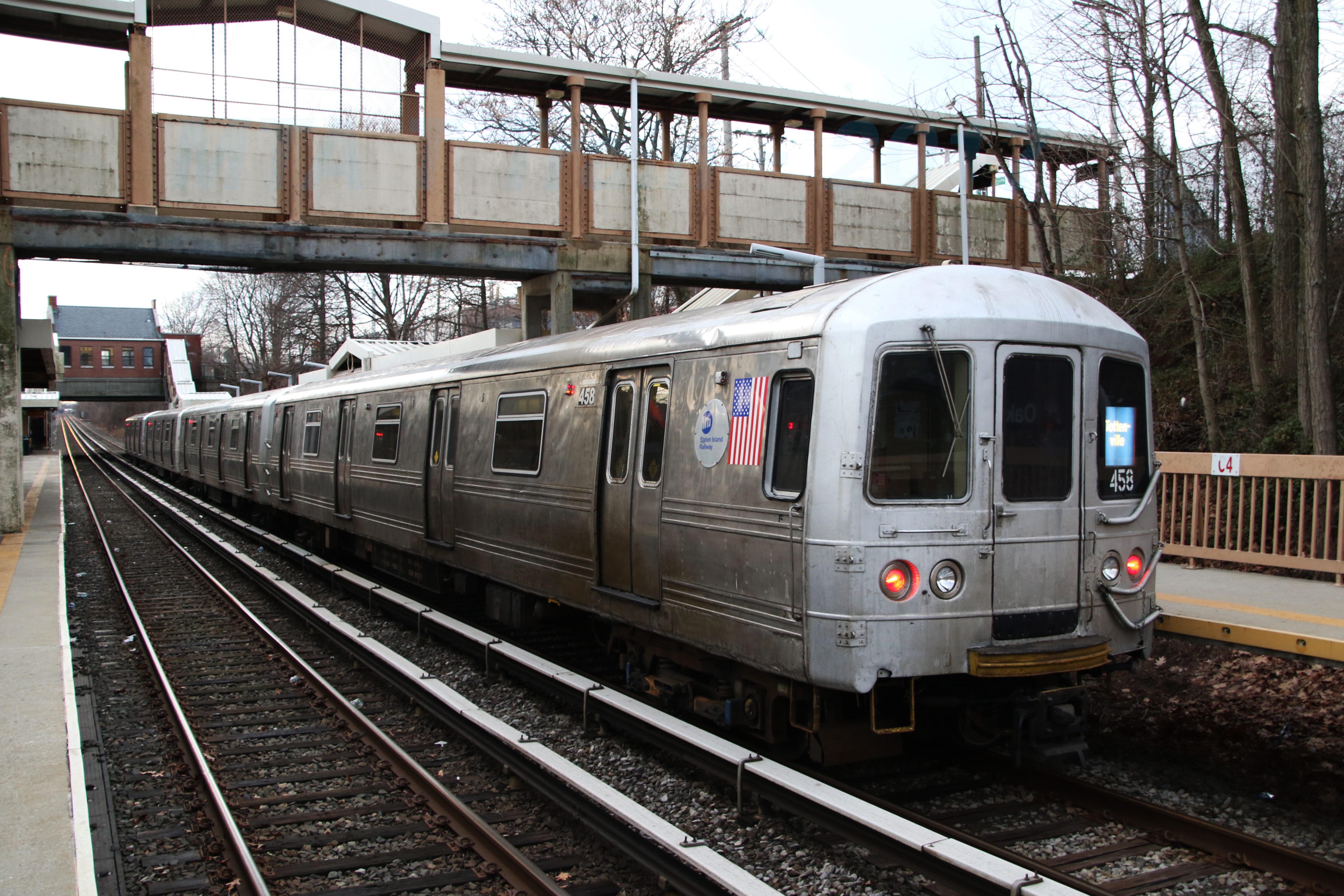 Tottenville-bound MTA Staten Island Railway local train of St. Louis Car R44 cars at Oakwood Heights.